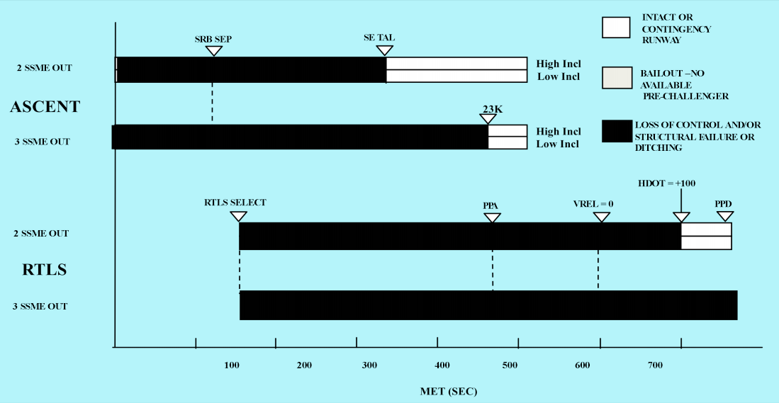 Space Shuttle abort options before STS-51L